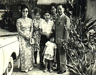 My uncle photo in 1966. He passed away in October 2011. Other information old photo